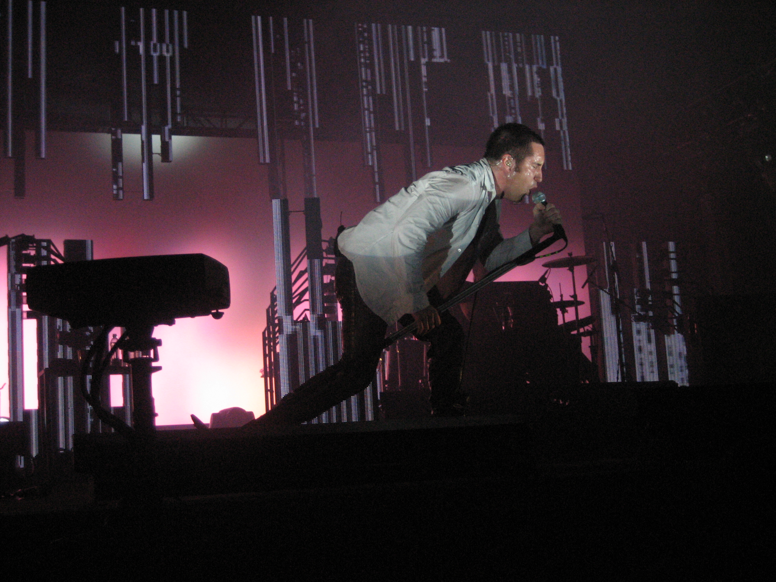 Nine Inch Nails: Live With Teeth in Moline IL